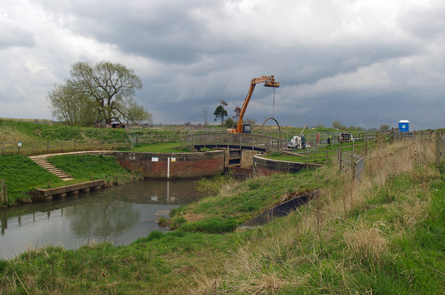 Harlam Hill Lock When this photo was taken the Environment Agency were renovating this lock. The steps on the left of the picture lead down to a portage point.